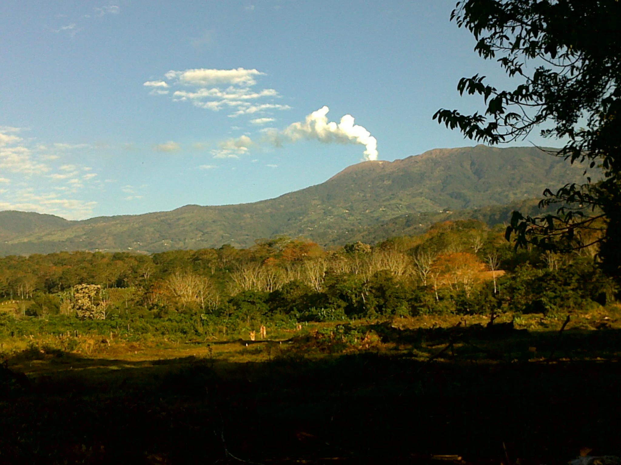 Image of Turrialba volcano's eruption.